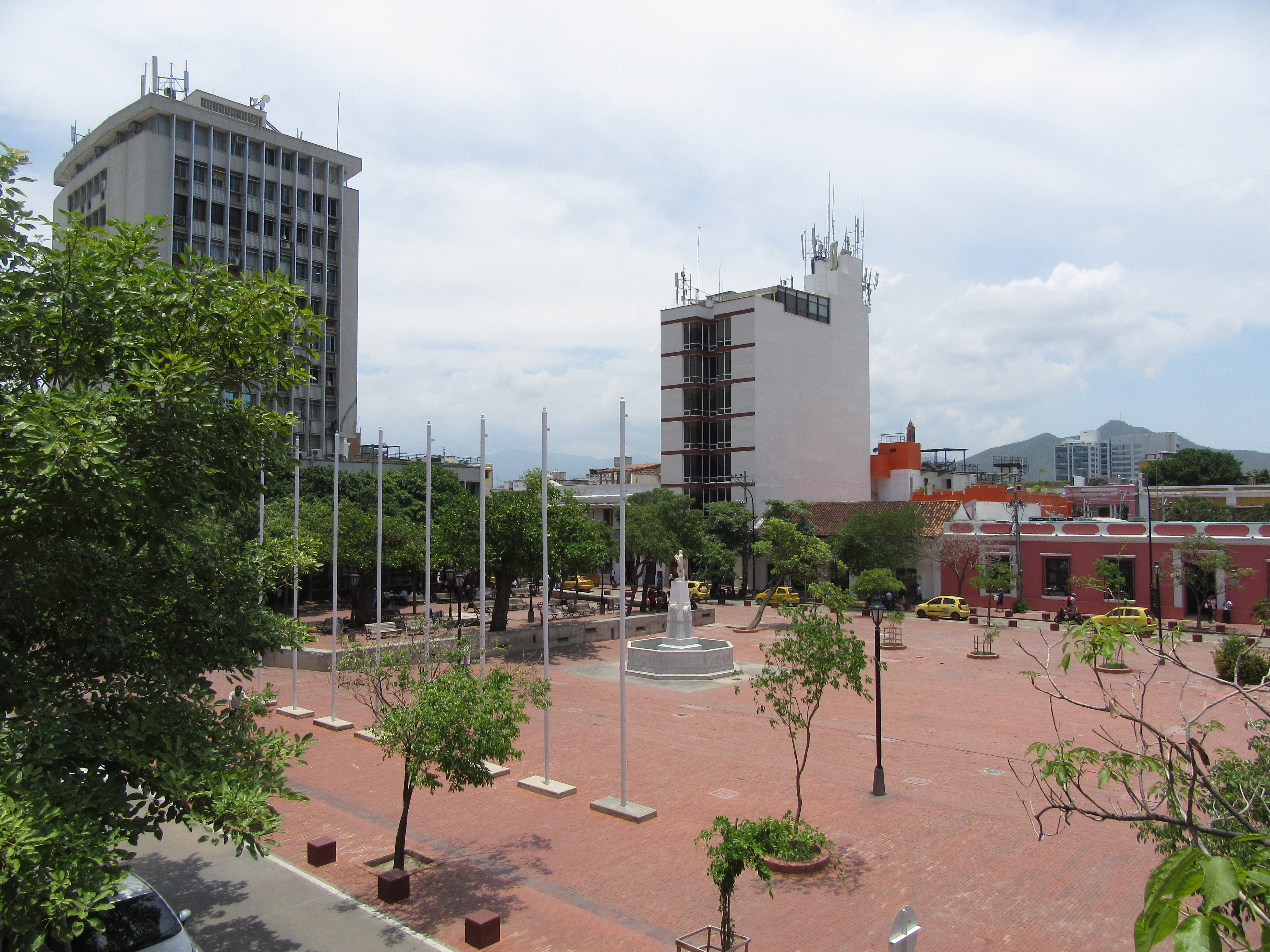 Santa Marta